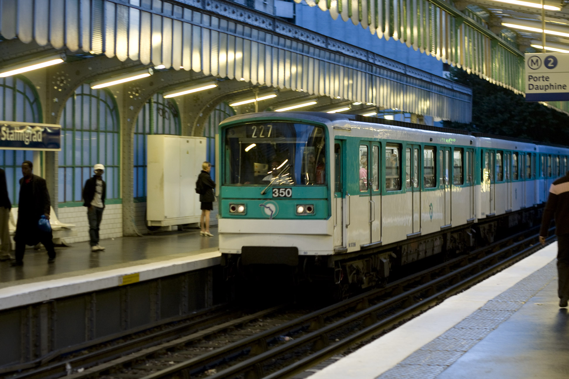 MF 67 on Stalingrad station of Paris Metro